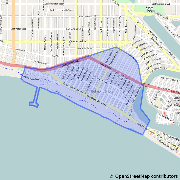 This map of Long Beach, California was created from OpenStreetMap project data, collected by the community using the boundaries outlined in Wikipedia. This map may be incomplete, and may contain errors. Don't rely solely on it for navigation.